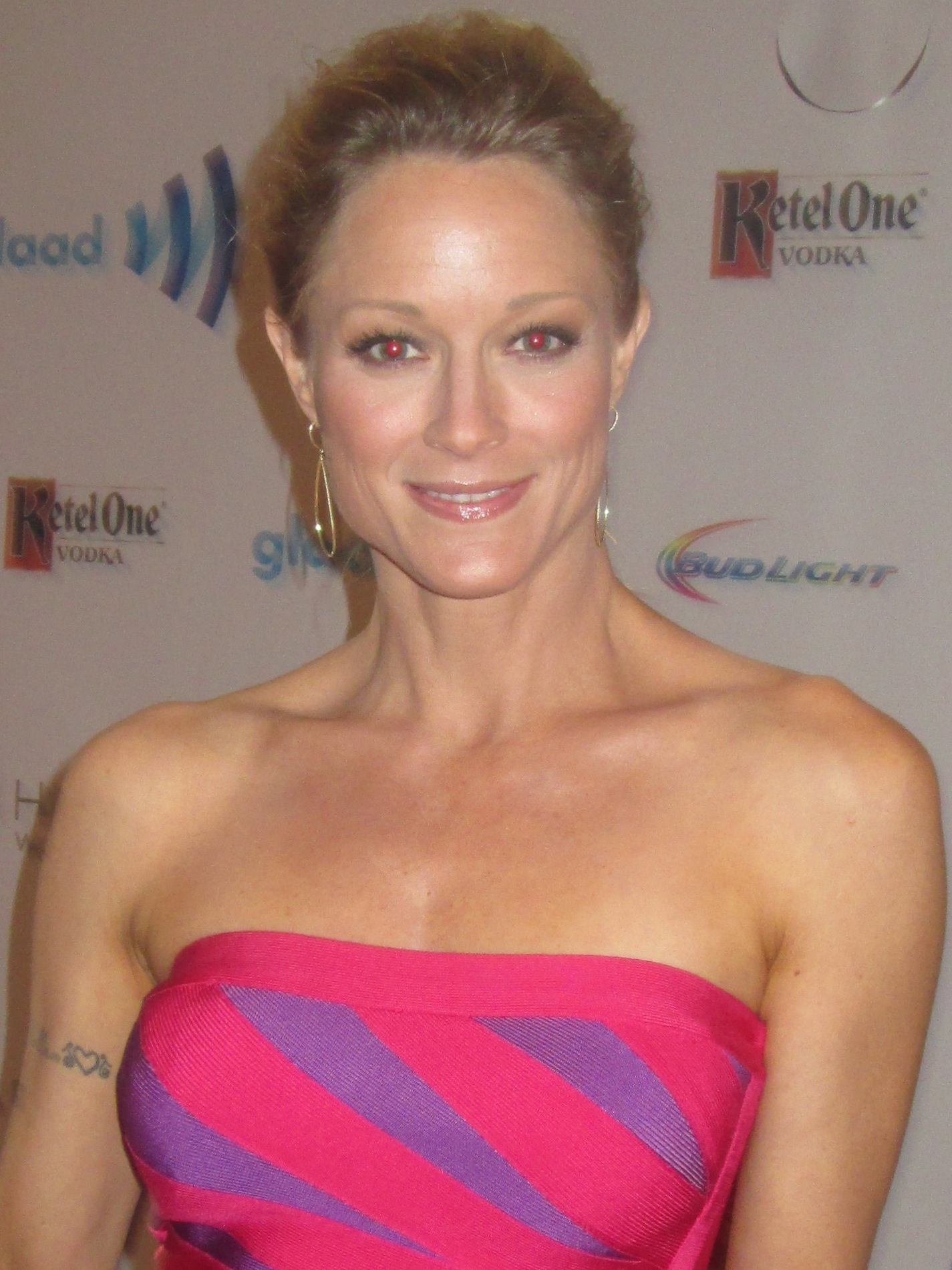 Polo at the 2014 GLAAD Media Awards